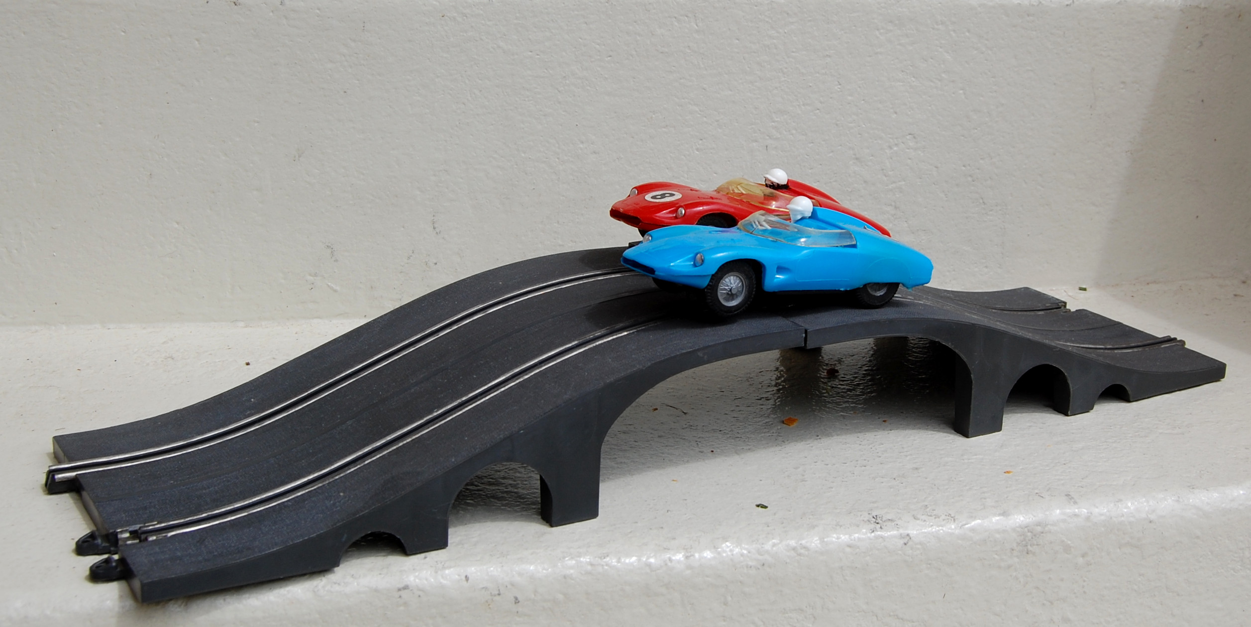 Circuit 24 slot cars